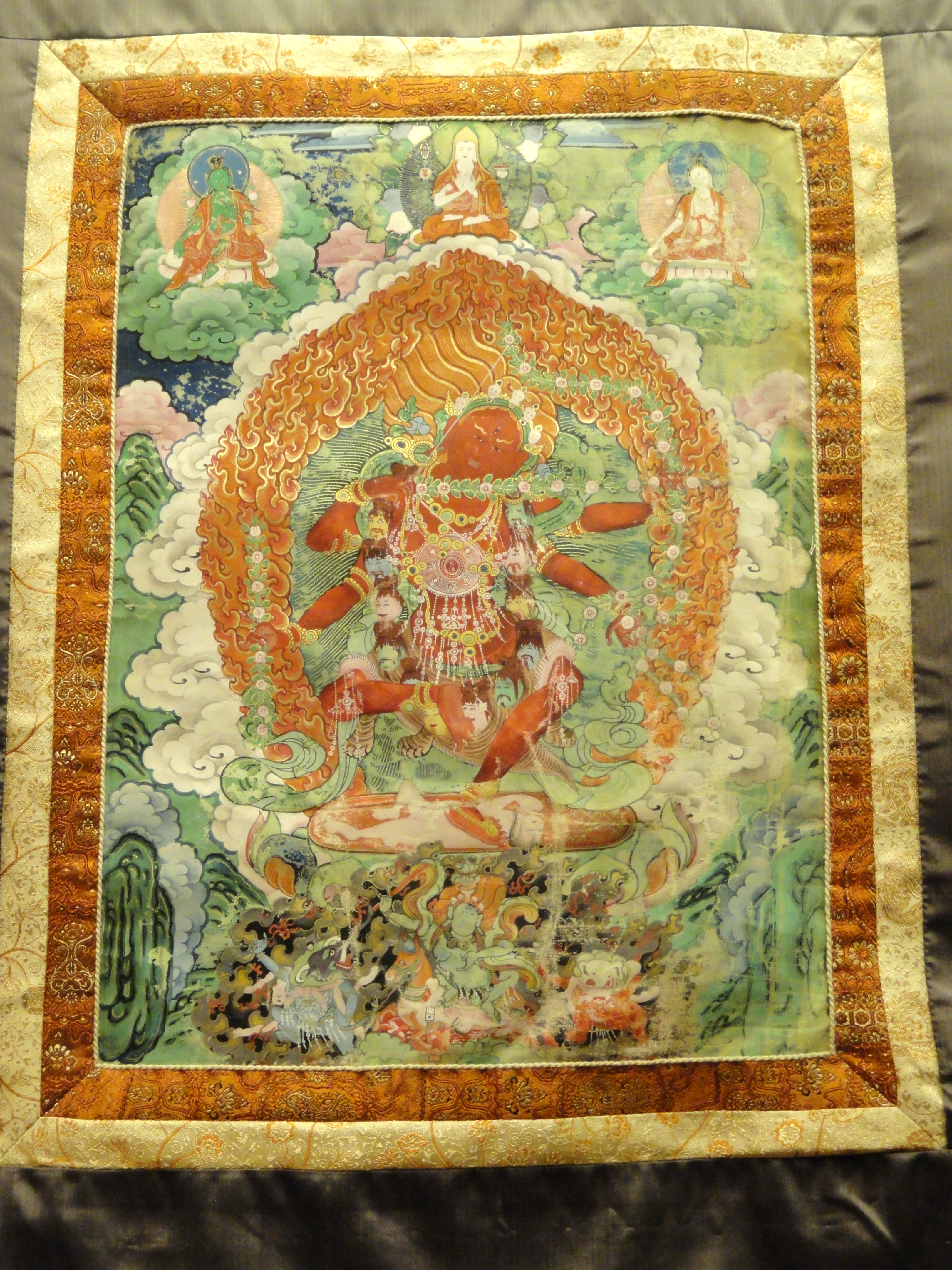 Exhibit in the Asian collection of the American Museum of Natural History, Manhattan, New York City, New York, USA.